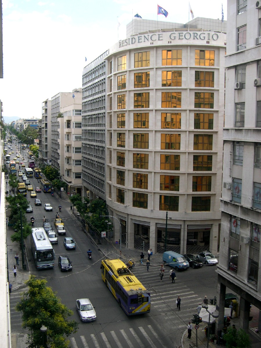 Patission Avenue in Athens, Greece. One of the bussiest streets of the Greek capital.